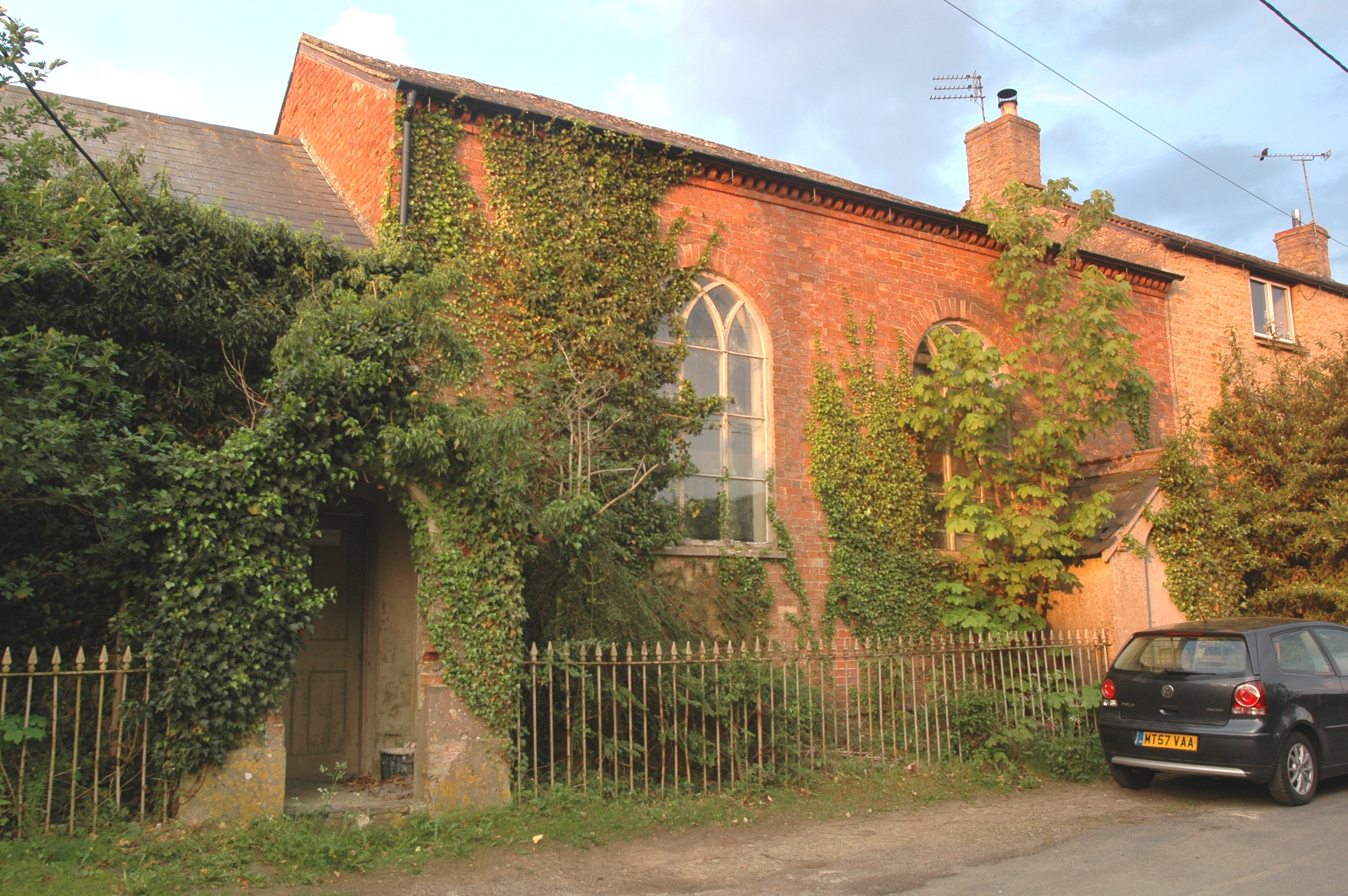 Disused non-conformist chapel in Chapel Lane, Neat Enstone, Oxfordshire